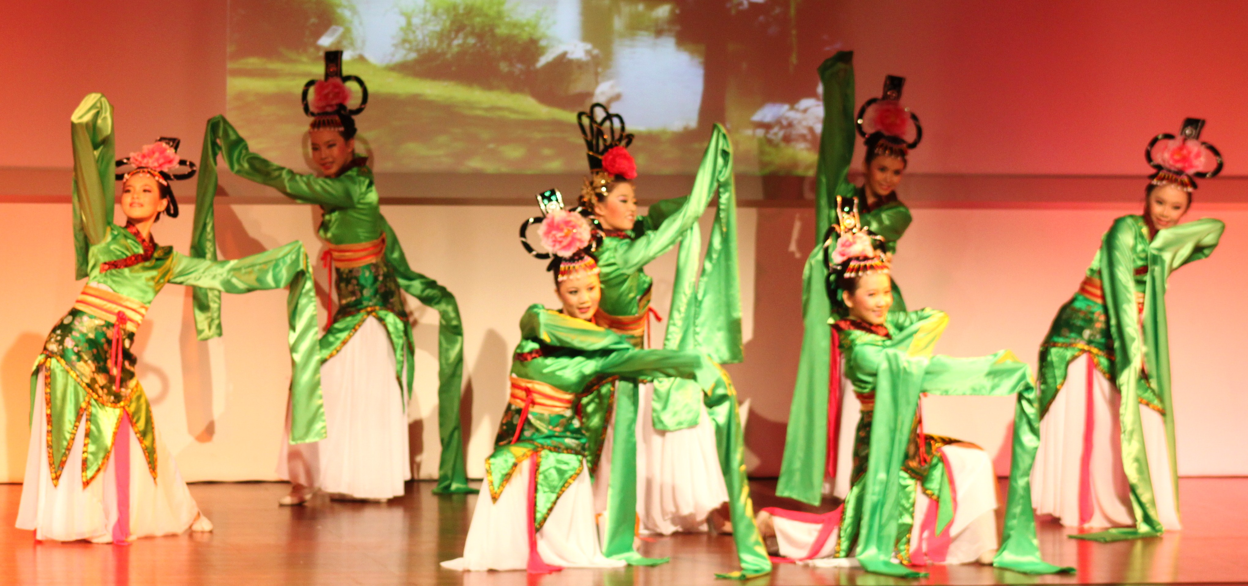 Traditional Ta Ge Dance by Dream Butterfly Dance Group 蝶梦舞团. Performed at Binus University's Mandarin's Day 2009: Legend of The Moon Goddess. Photo by: Gaby Andriany Ongso